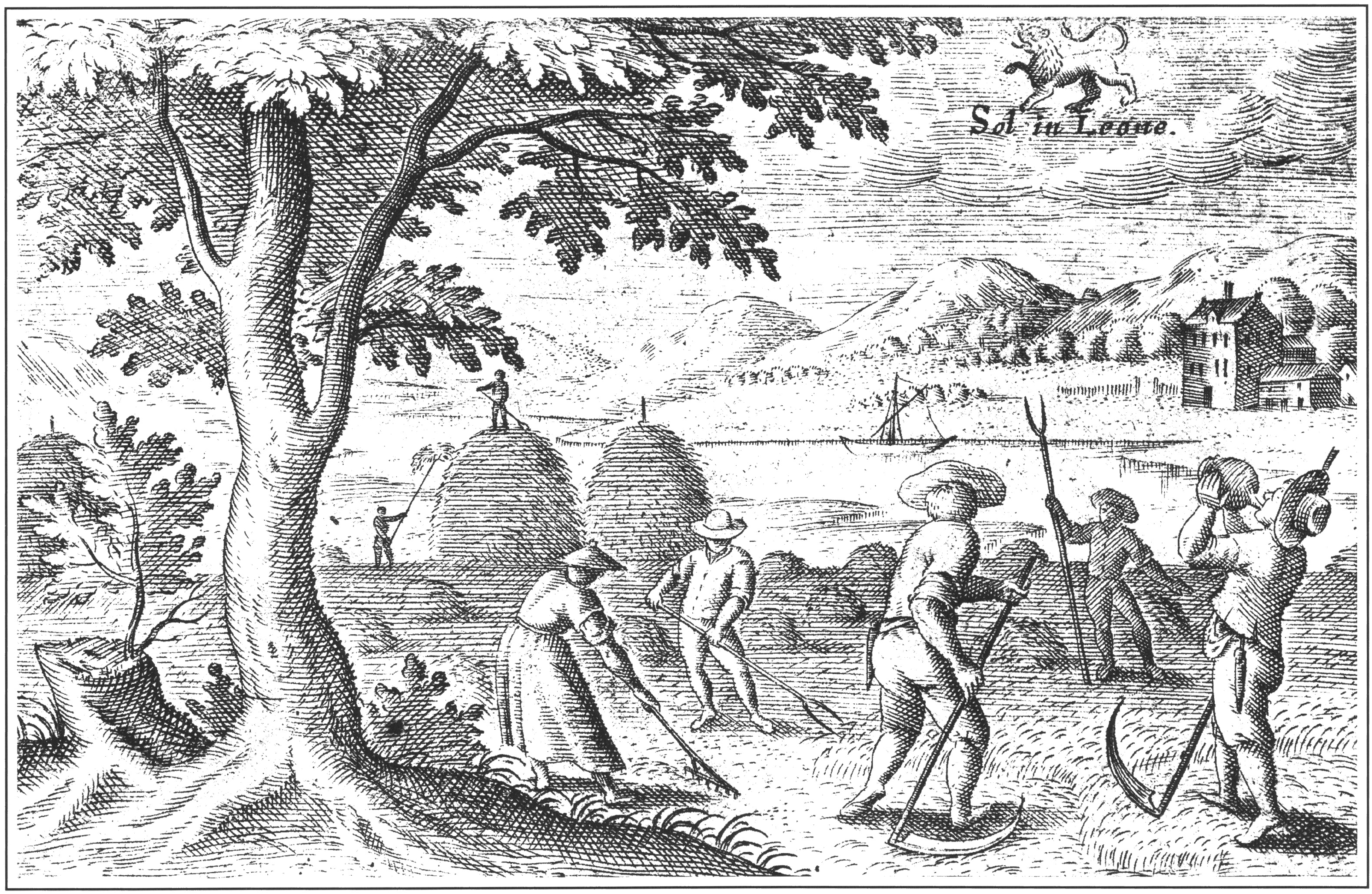 Julius, Аleksander Tarasowicz